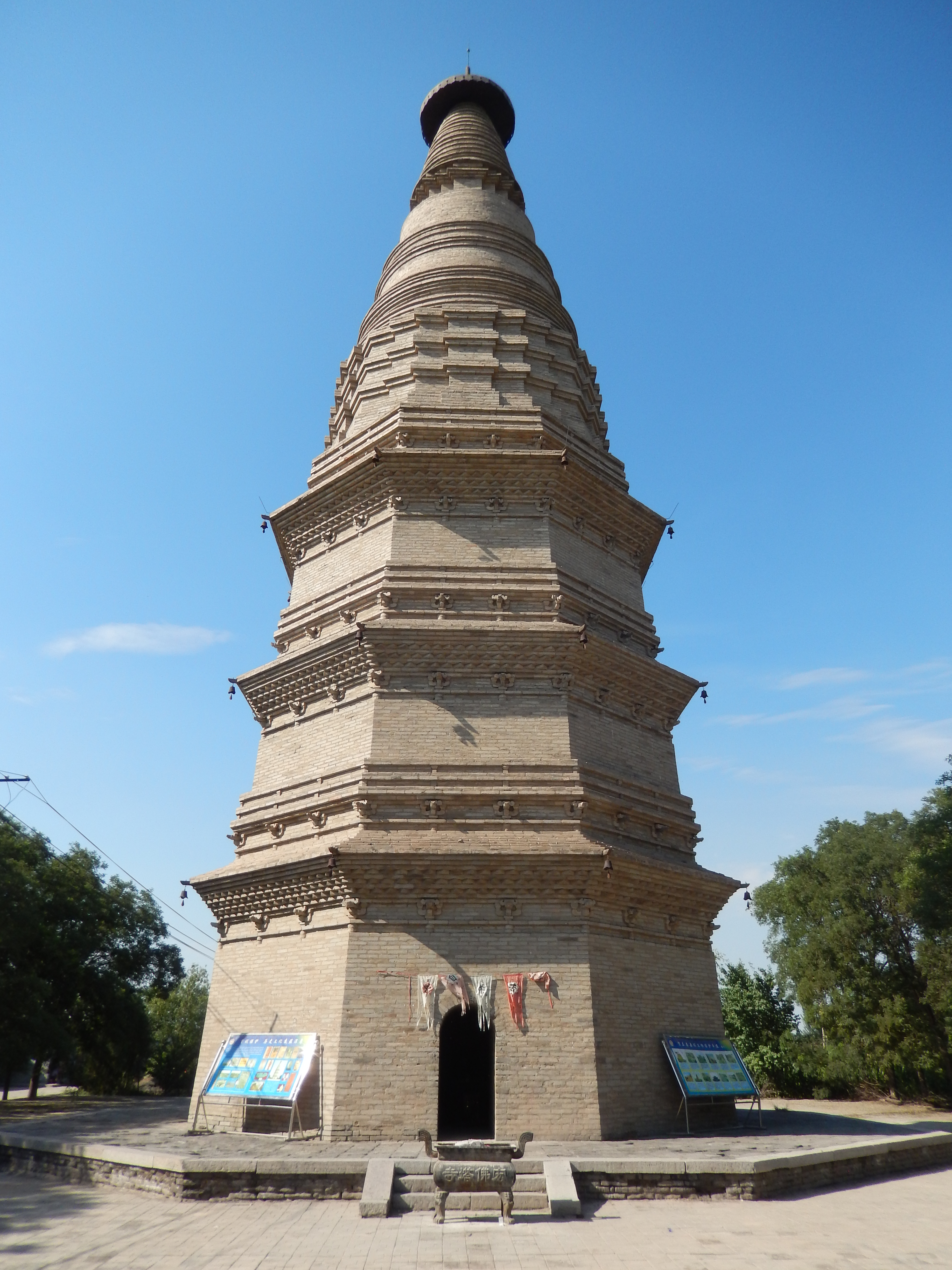 Hongfo pagoda (宏佛塔) in Helan County, Ningxia, China. View from the front (south) side.